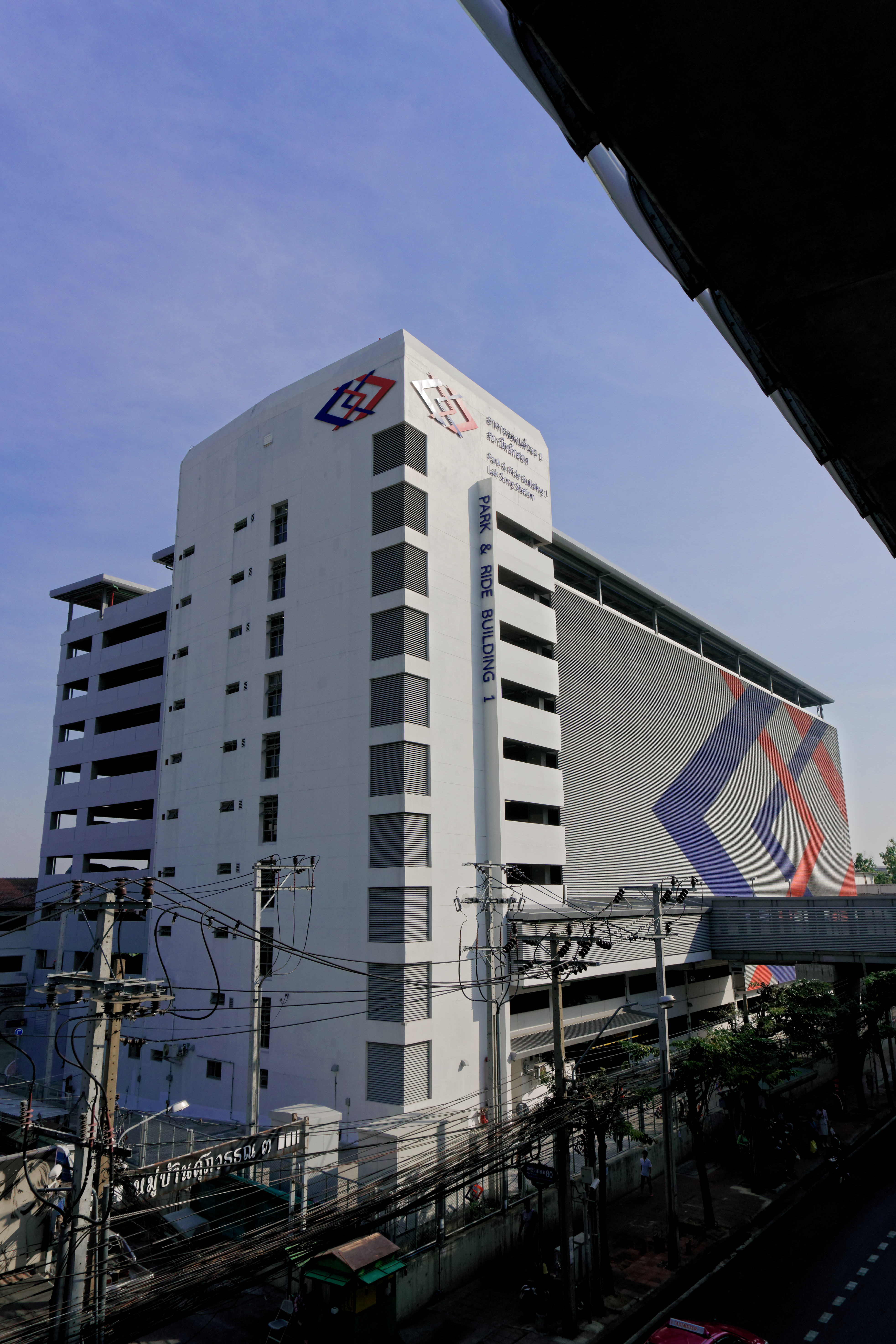 MRT Lak Song station - Park & ride building #1